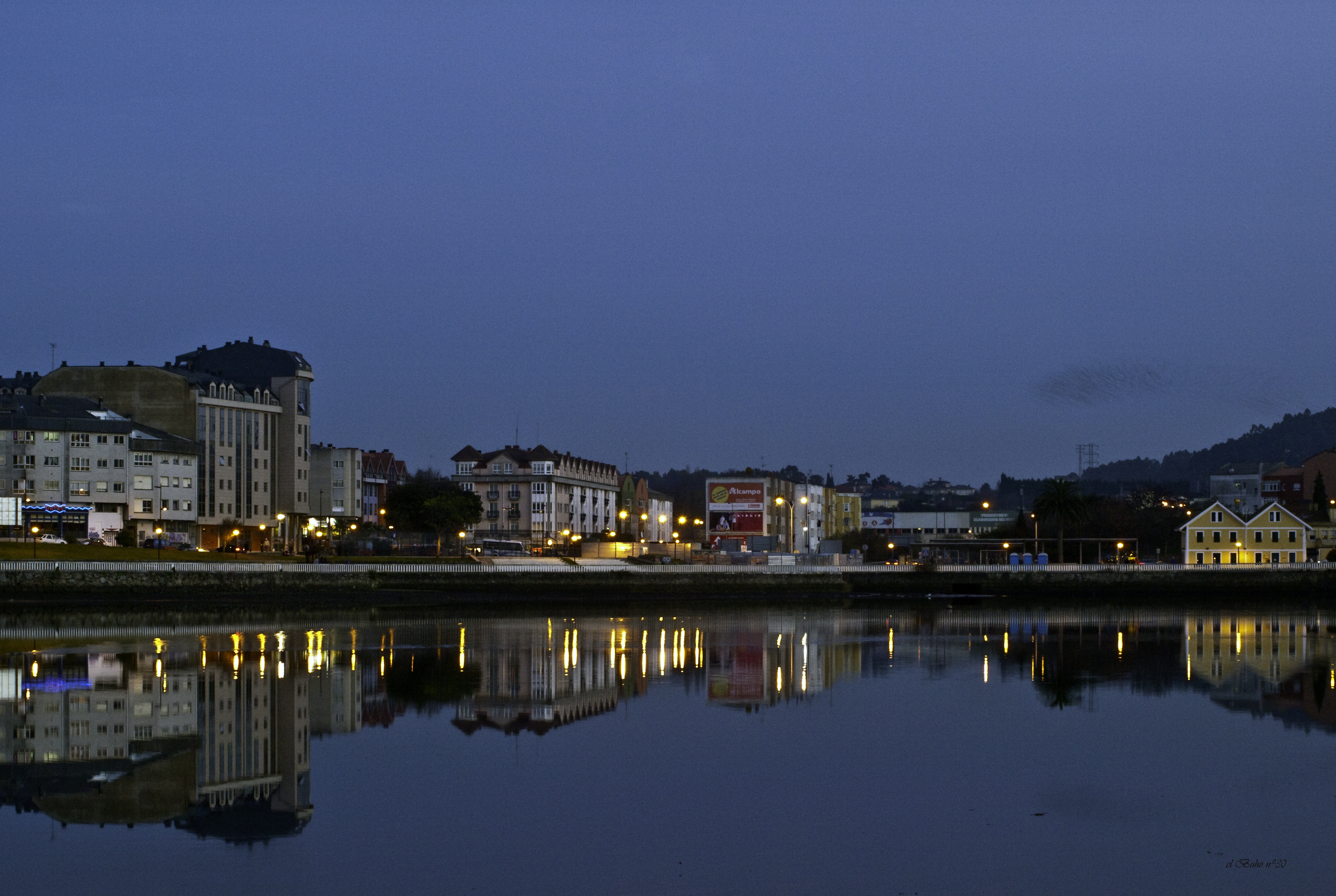 La hora del boogie ♪♫ eastbound train ♪♫ - Dire Straits